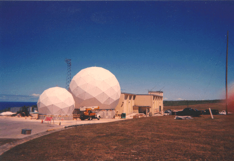 TDRSS ground station on Guam.